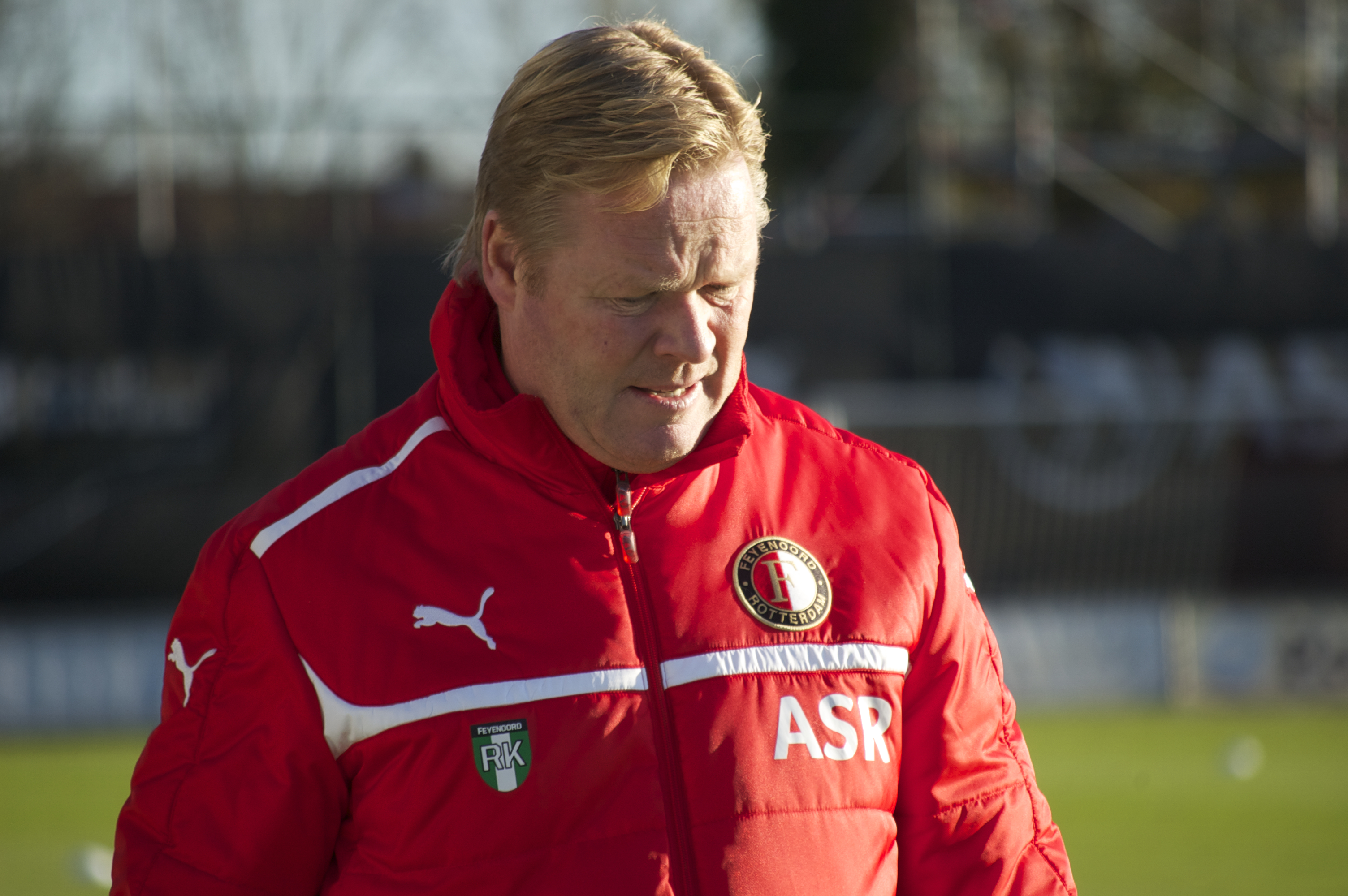 Ronald Koeman in gedachten verzonken tijdens de training van Feyenoord. Koeman zou later met zijn broer aan de slag gaan bij Southampton FC.